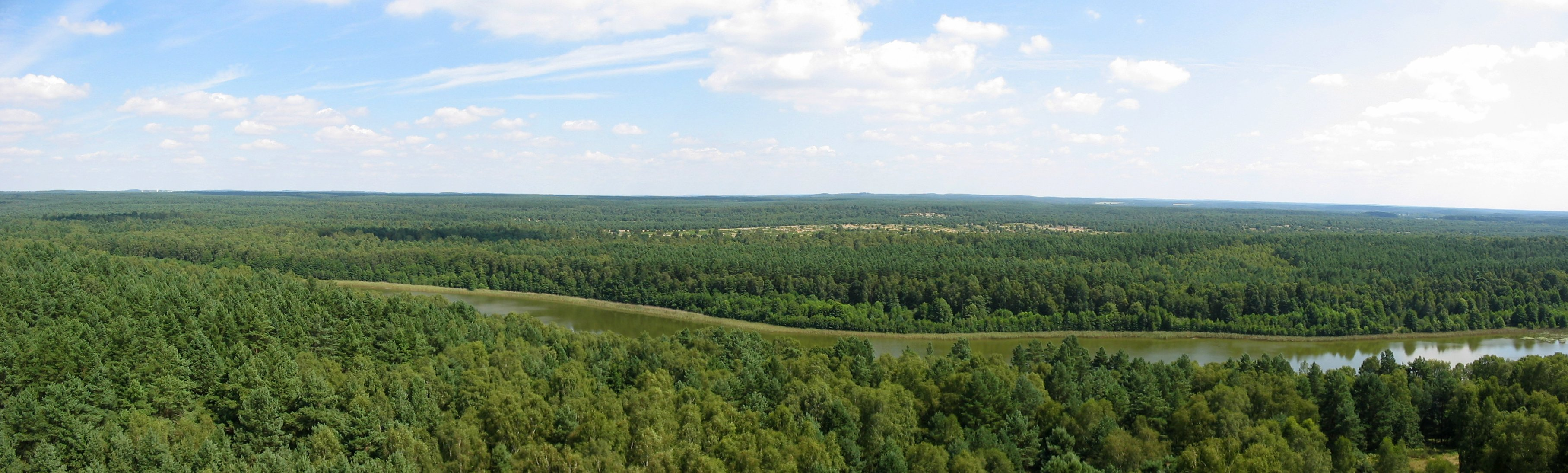 View from the view- and observation tower at hill Käflingsberg in Müritz National Park in Germany to the lake Großer Zillmannsee and a former proving ground